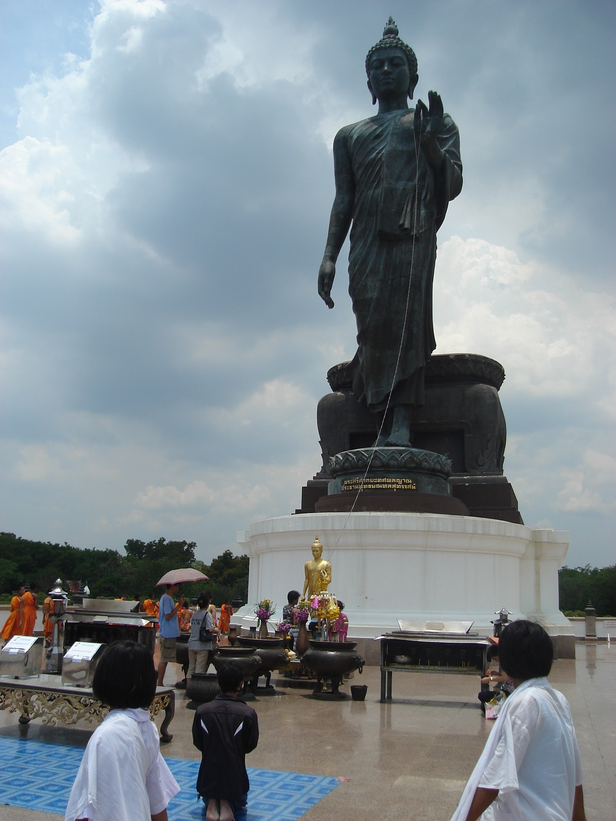 Phutthamonthon Thailand, 2006. Own work